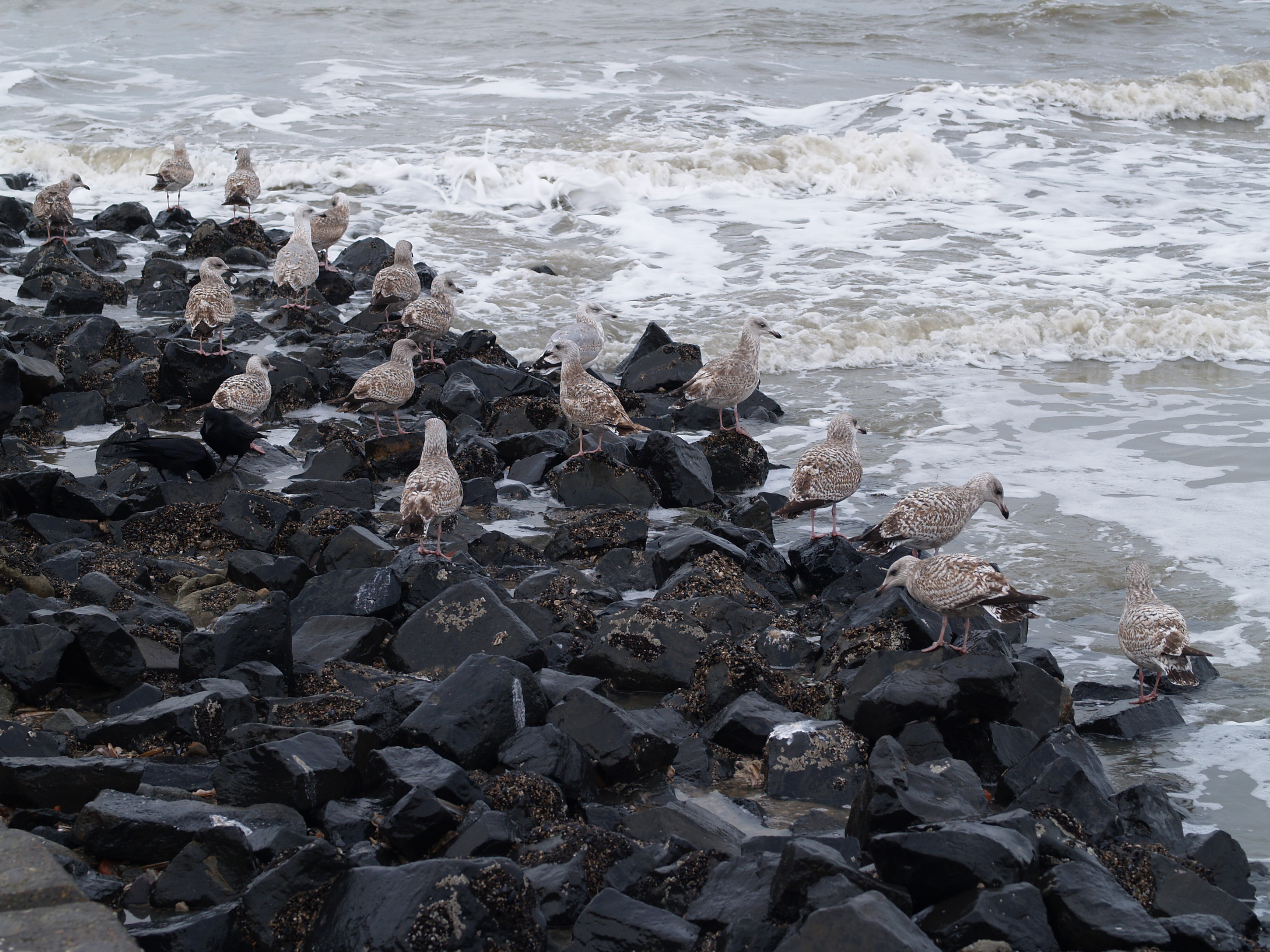 Young Herring Gulls on shore of the North Sea at Norderney (Germany)